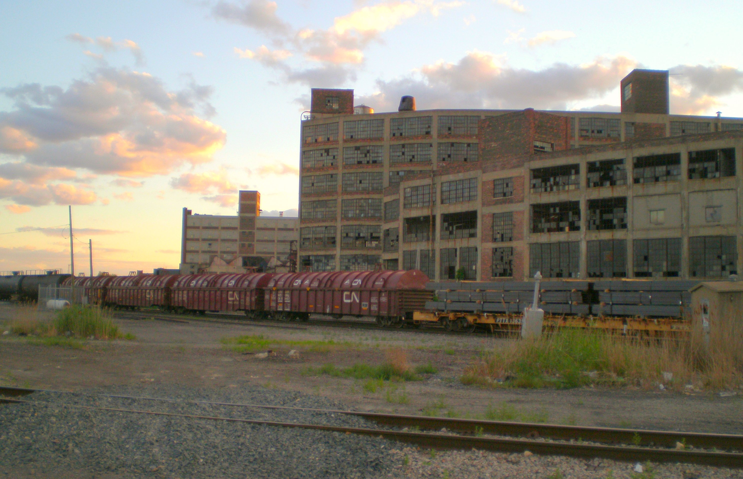 Detroit, Michigan at Milwaukee Junction looking south/west at Russell Industrial Complex